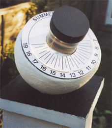 Benoy Sun Clock showing time of 6.00pm 18.00 hours